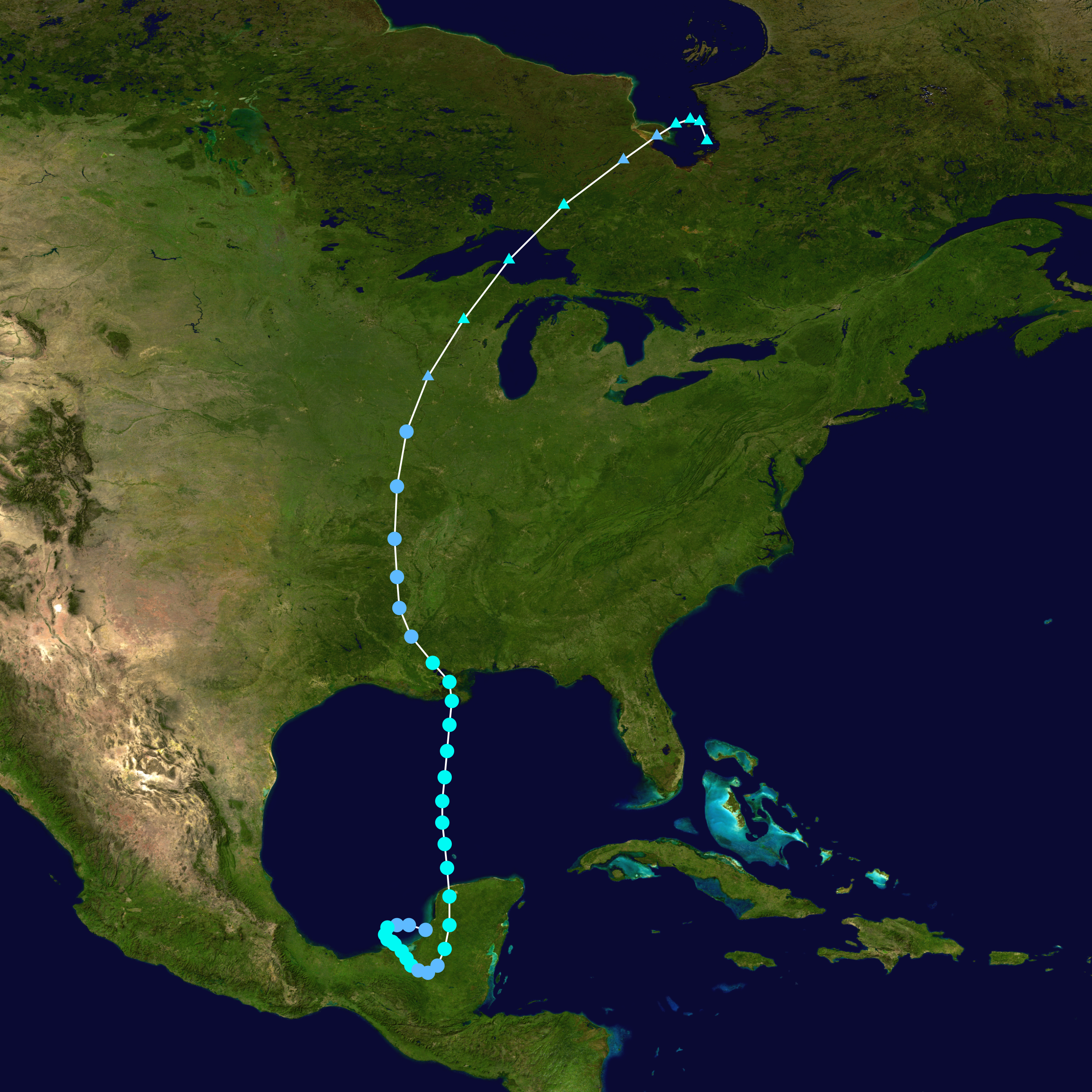 Track map of Tropical Storm Cristobal of the 2020 Atlantic hurricane season. The points show the location of the storm at 6-hour intervals. The colour represents the storm's maximum sustained wind speeds as classified in the Saffir–Simpson scale (see below), and the shape of the data points represent the nature of the storm, according to the legend below. Saffir–Simpson scale Tropical depression≤38 mph≤62 km/h Category 3111–129 mph178–208 km/h Tropical storm39–73 mph63–118 km/h Category 4130–156 mph209–251 km/h Category 174–95 mph119–153 km/h Category 5≥157 mph≥252 km/h Category 296–110 mph154–177 km/h Unknown Storm type Tropical cyclone Subtropical cyclone Extratropical cyclone / Remnant low / Tropical disturbance / Monsoon depression